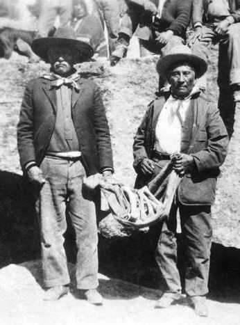 Chief Buckskin Charlie and Chief John McCook reburying Chief Ouray's bones.